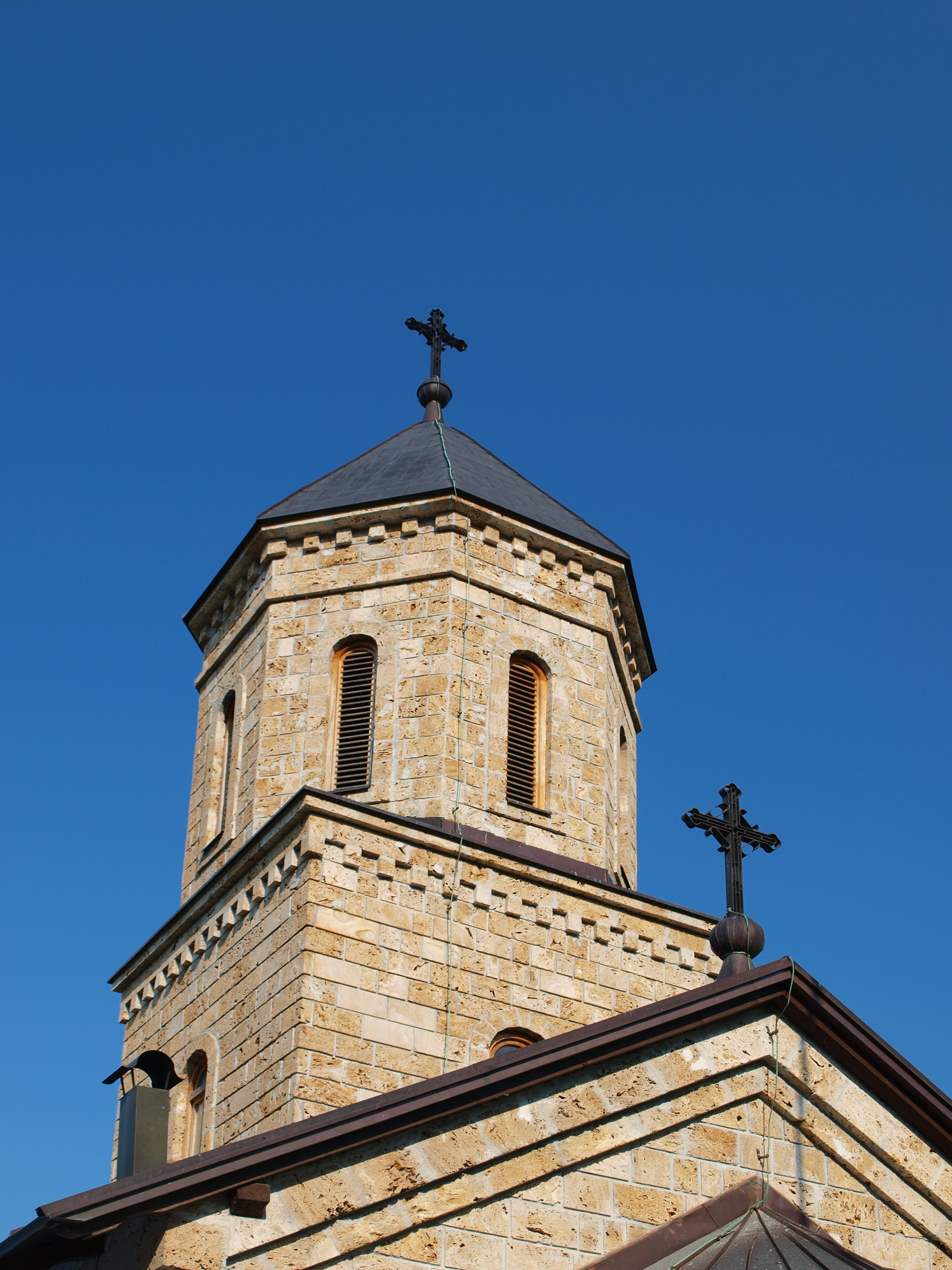 Serbian Orthodox monastery Moštanica, Republika Srpska, Bosnia.